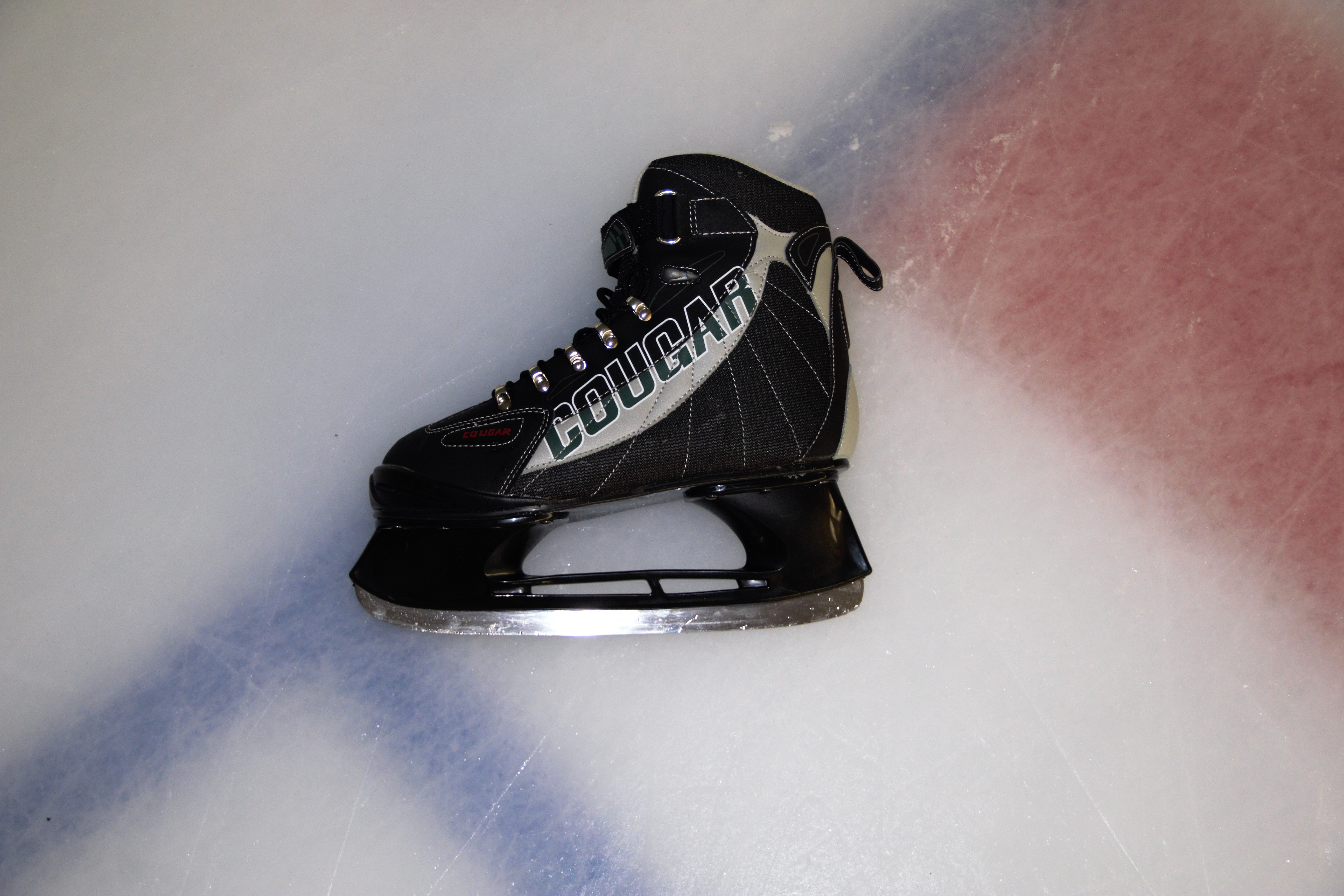 American Athletic Cougar Hockey Skate